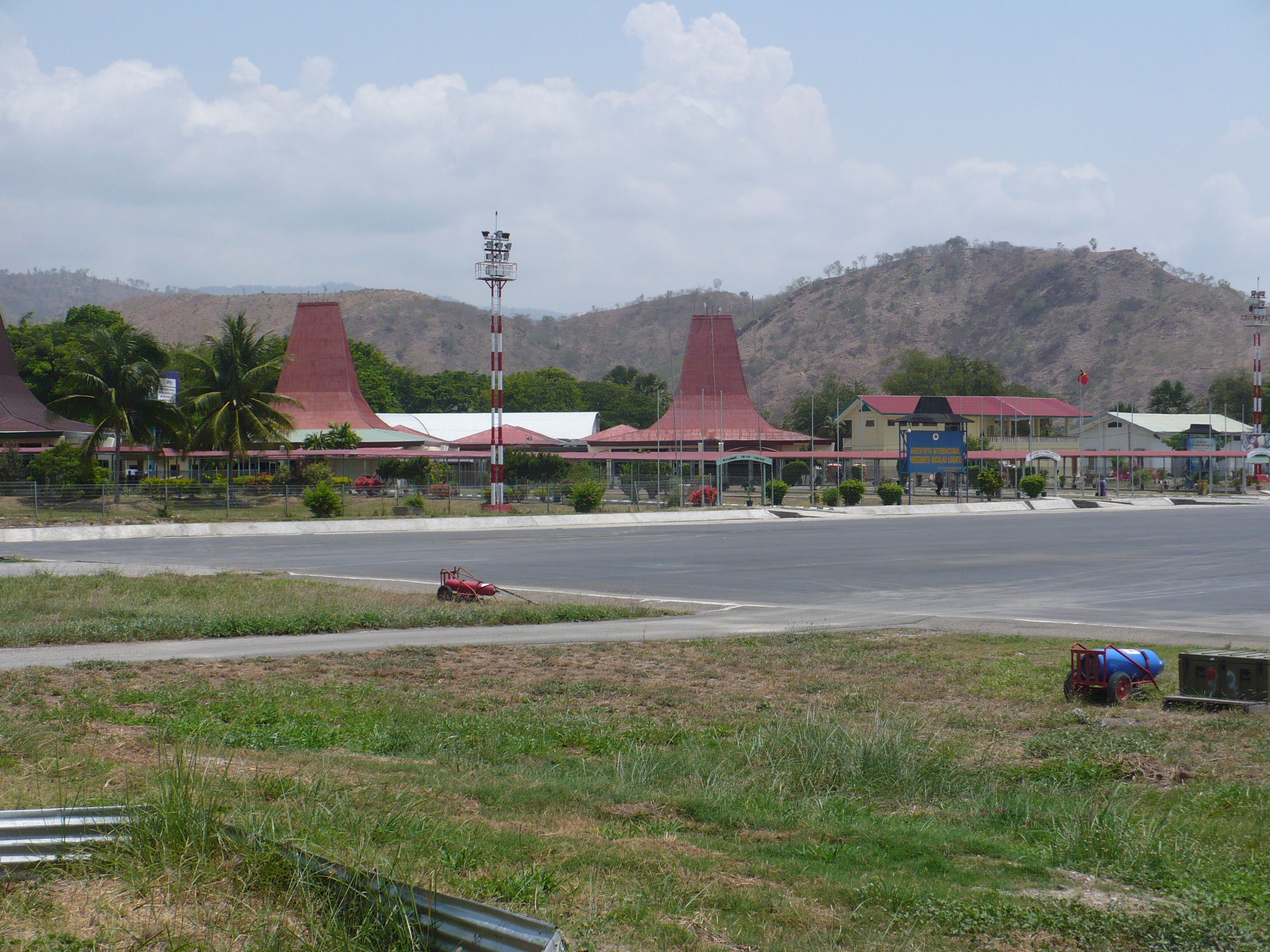 View of the terminal building at Dili Airport in East Timor.